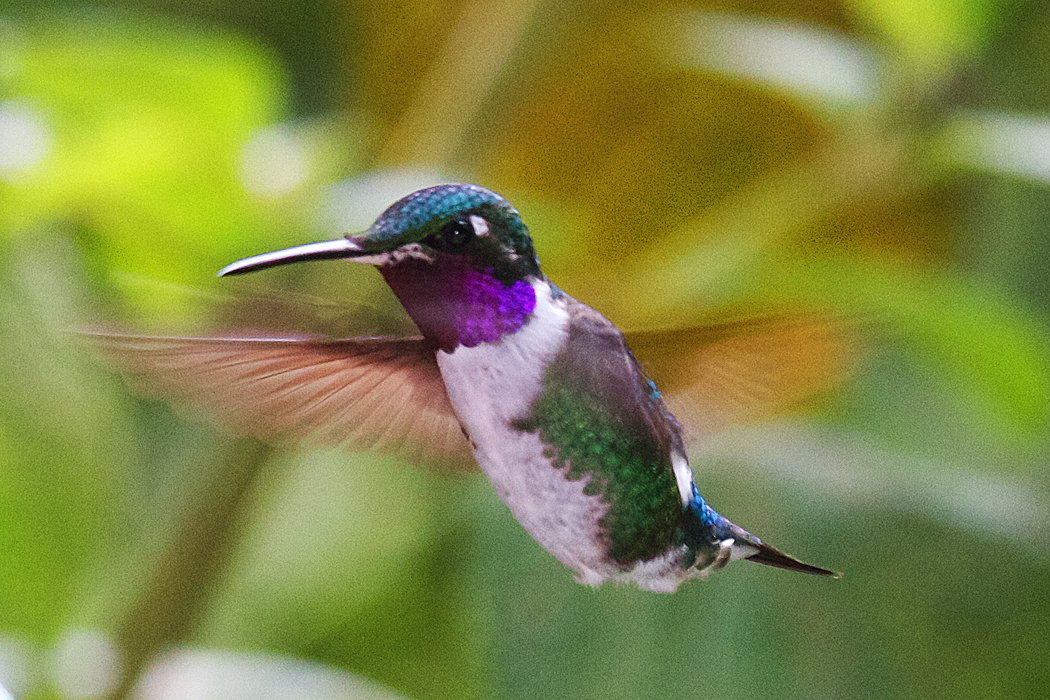 White-bellied Woodstar photo taken at Guango Lodge (east slope), Ecuador.